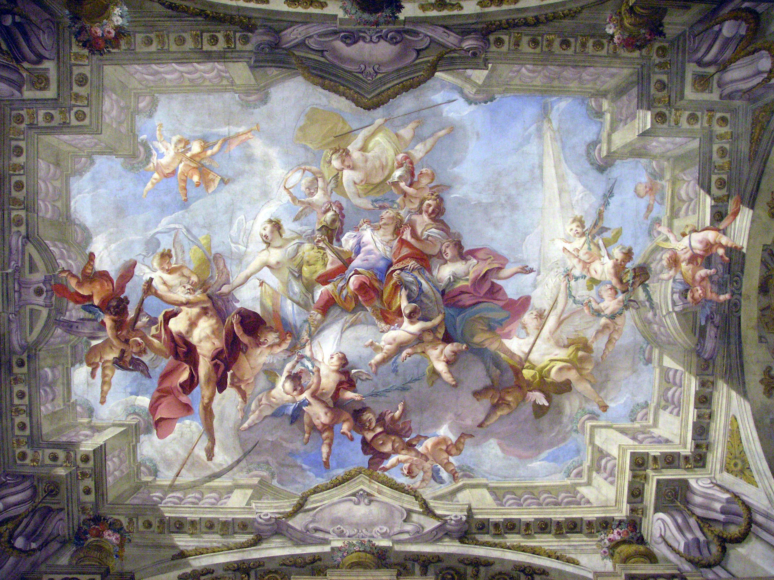 View of the frescoed ceiling of the Grand staircase of the Palais Kinsky in Vienna, at the Freyung. The palace was owned by the noble Kinsky von Wichnitz und Tettau comital family. It was constructed during the baroque age as a Stadtpalais (city-palace).